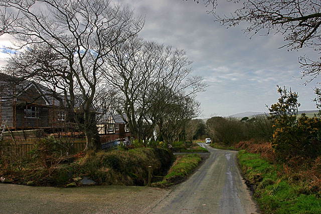 Glen Vine. From the top of the housing estate, looking down the hill which leads to Ballakelly. Some incomplete houses can be seen on the left.